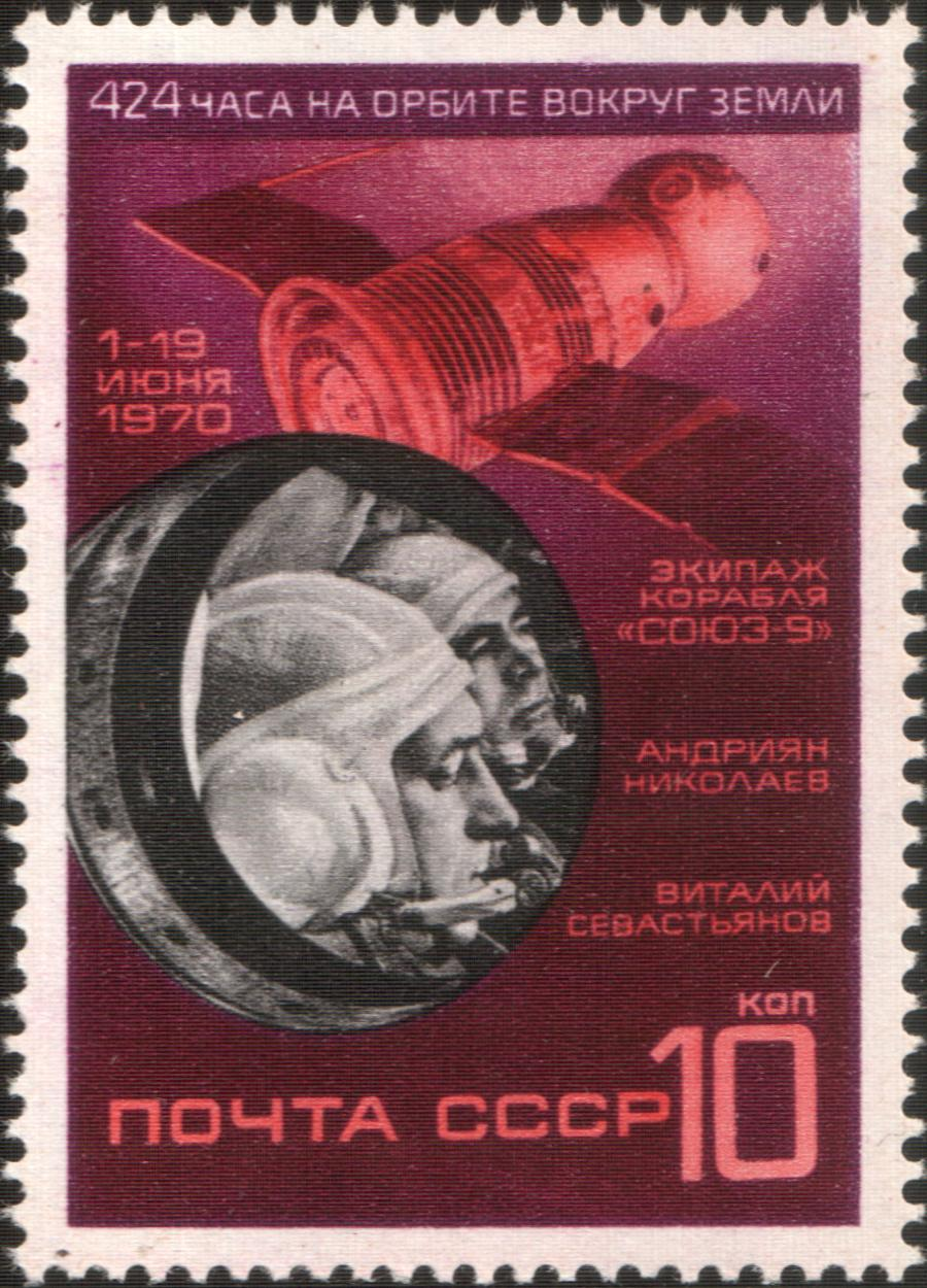 USSR stamp: Cosmonauts Andriyan Nikolayev and Vitaly Sevastyanov, Soyuz 9. Series: 424 Hour Space Flight of Soyuz 9, June 1–19